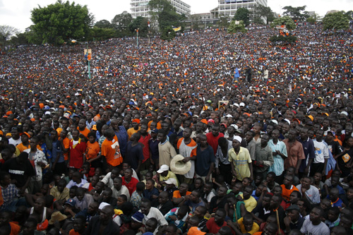 Orange democratic movement supporters attending a rally held by Raila Odinga one of the presidential candidate in the Kenyan general election to be held in December 2007.